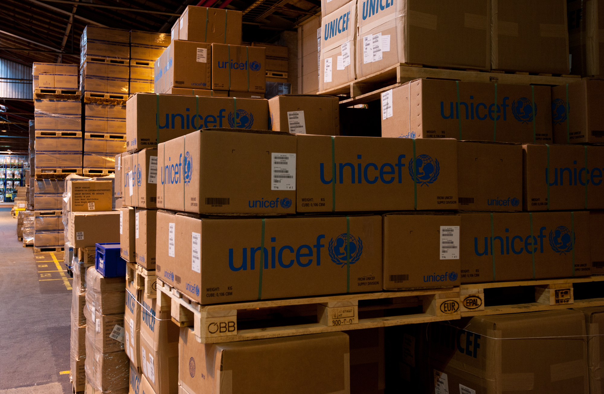 Pallets on storage at the UNICEF world warehouse in Copenhagen